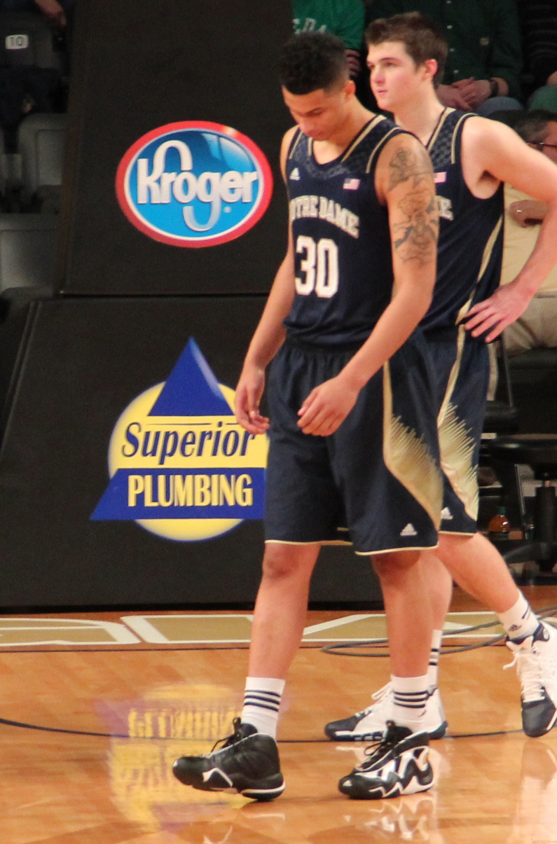 Zach Auguste in game Against Georgia Tech.